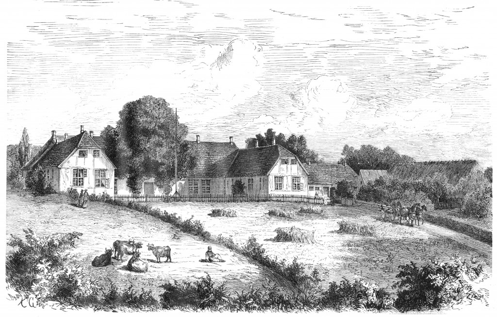 Drawing of Tersløsegaard at the village of Tersløse, Sorø Municipality, Denmark